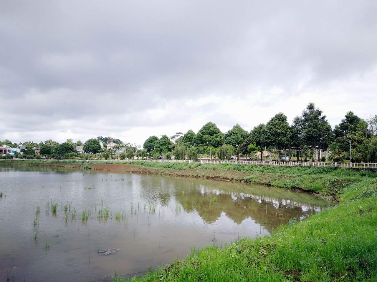 ho tay